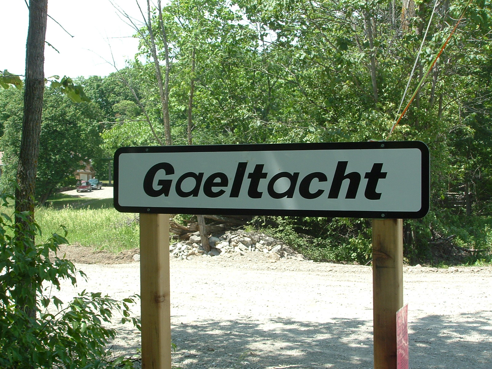 Signpost at the entrance to the 'Baile na hÉireann' Gaeltacht in Tamworth, Ontario, Canada